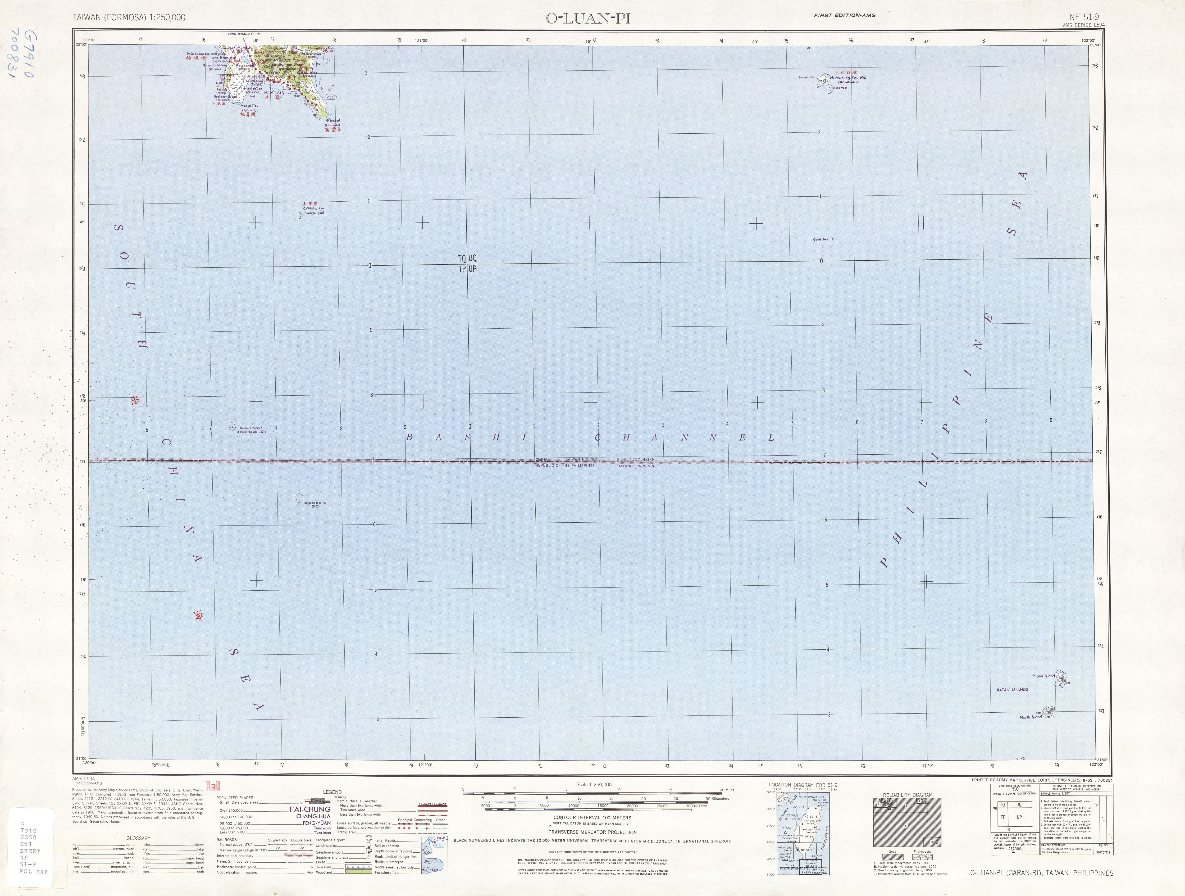 Tawian AMS Topographic Maps